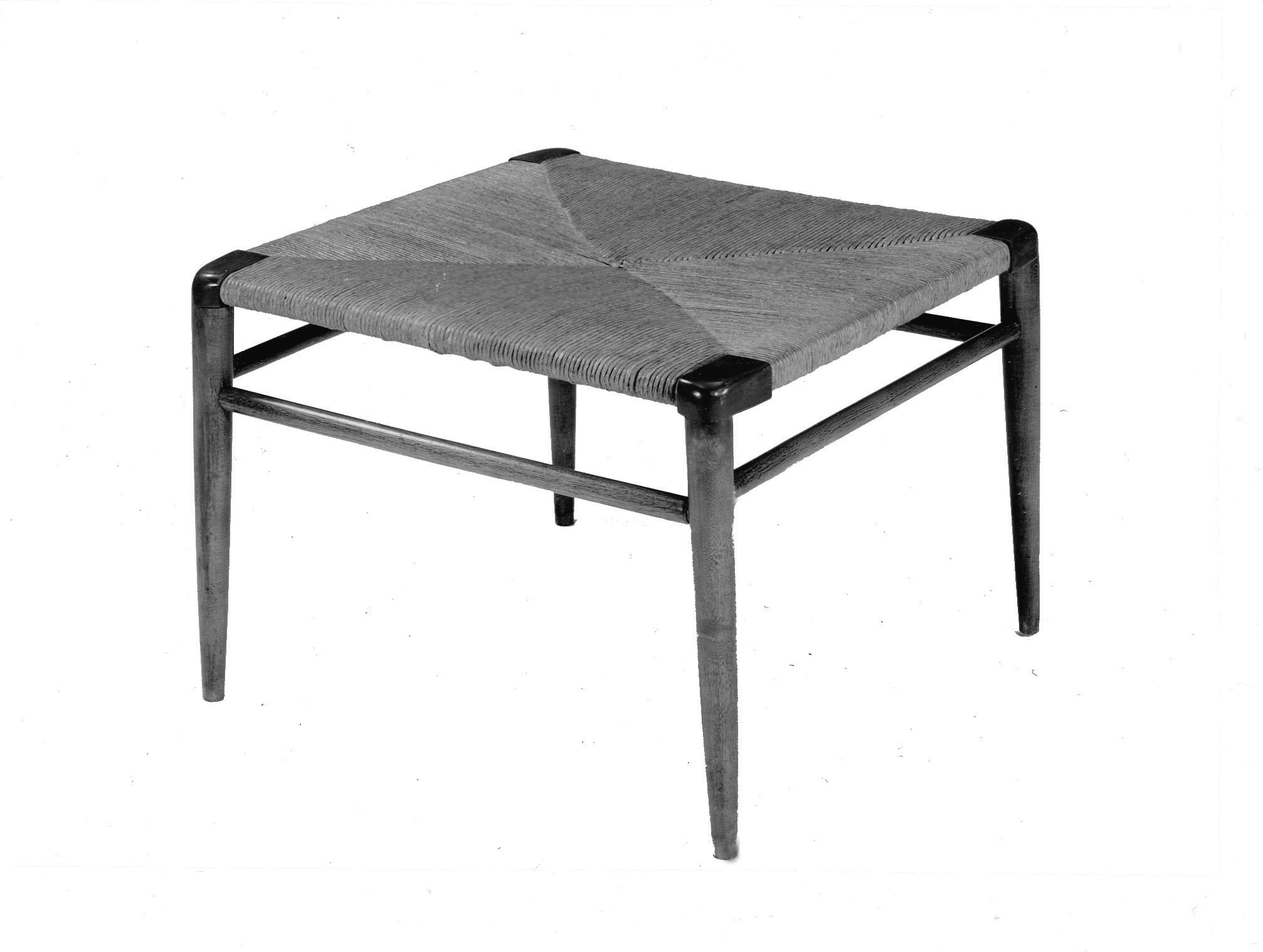 Award winning ottoman with rush seating. Other information I am working with the smilow family to create this page.